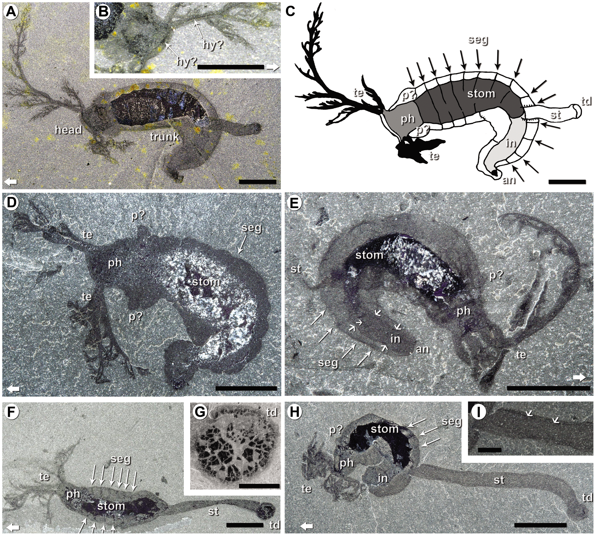 Herpetogaster collinsi from the Middle Cambrian Burgess Shale A–C, Royal Ontario Museum (ROM) 58051 Holotype. A, Part, overall view; B, Counterpart, detail of tentacles with hydrostatic canal and/or vascular system emphasized by white arrows; C, Camera-lucida drawing of part and counterpart emphasizing the presence of putative segment boundaries and triangular projections along the stomach. D, ROM 58046 Part, with symmetrical tentacles and pharyngeal pores. E, ROM 58039 Counterpart, intestine with putative enclosing tube emphasized by small arrows. F, G, ROM 58037 Part. F, Part, lateral view; G, Detail of terminal disc. H, I, ROM 58047 Part. H, extended stolon and terminal disc; I, Detail of the stolon, small arrows point to a darker central area representing a possible coelomic cavity. Scale bars: A–F, H, 5 mm; G,I, 1 mm. an, anus; hy?, putative hydrostatic canal and/or vascular system; in, intestine; p?, putative pharyngeal pores; ph, pharynx; seg, segment boundary?; st, stolon; stom, stomach; td, terminal disc; te, tentacle.